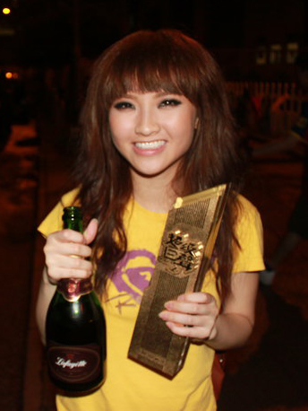 Mag Lam celebrating with fans after winning The Voice 2 competition.